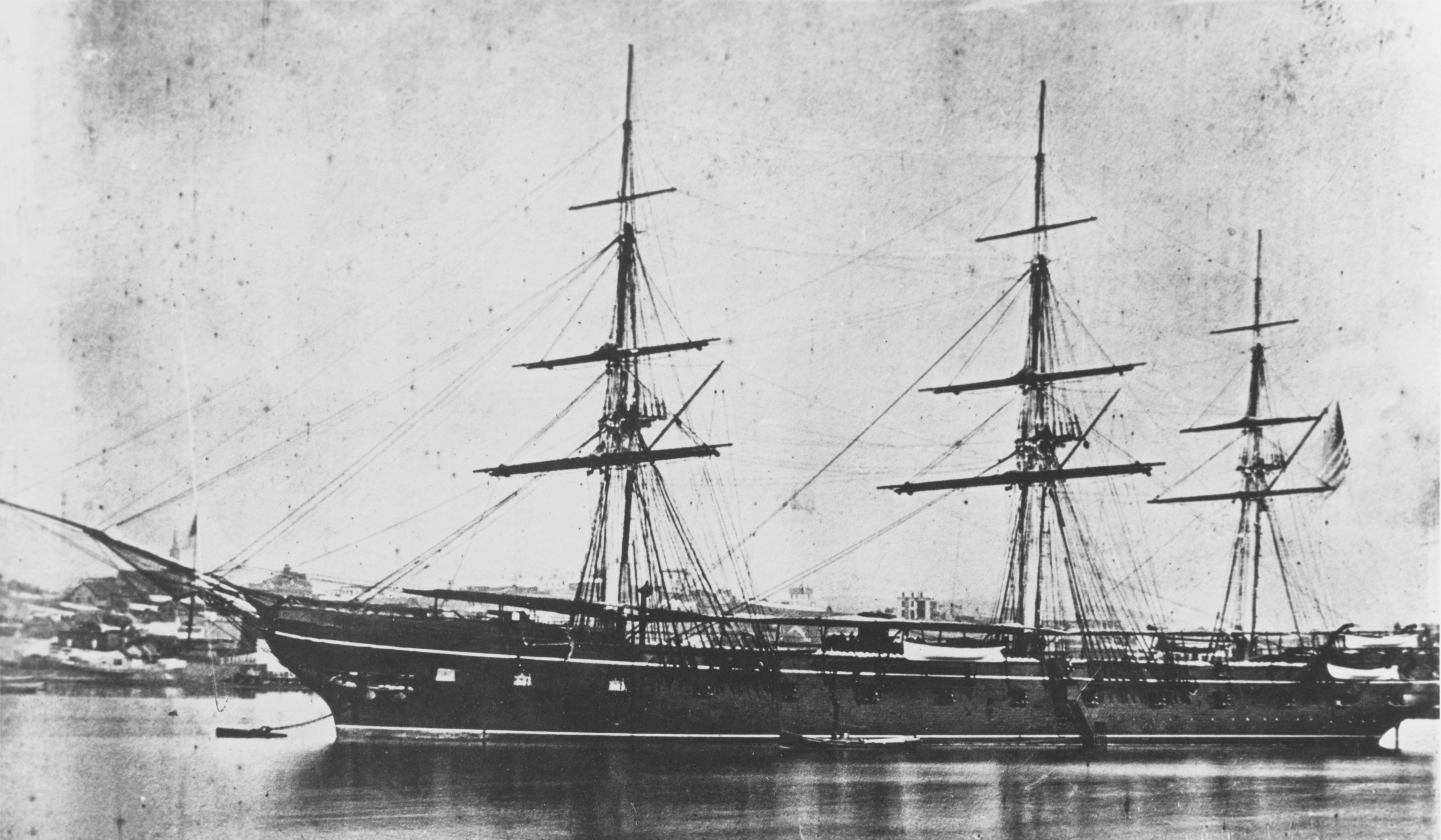 (1870-1875) Moored off the Mare Island Navy Yard, California, circa 1871-1873. Photograph from the Bureau of Ships Collection in the U.S. National Archives.